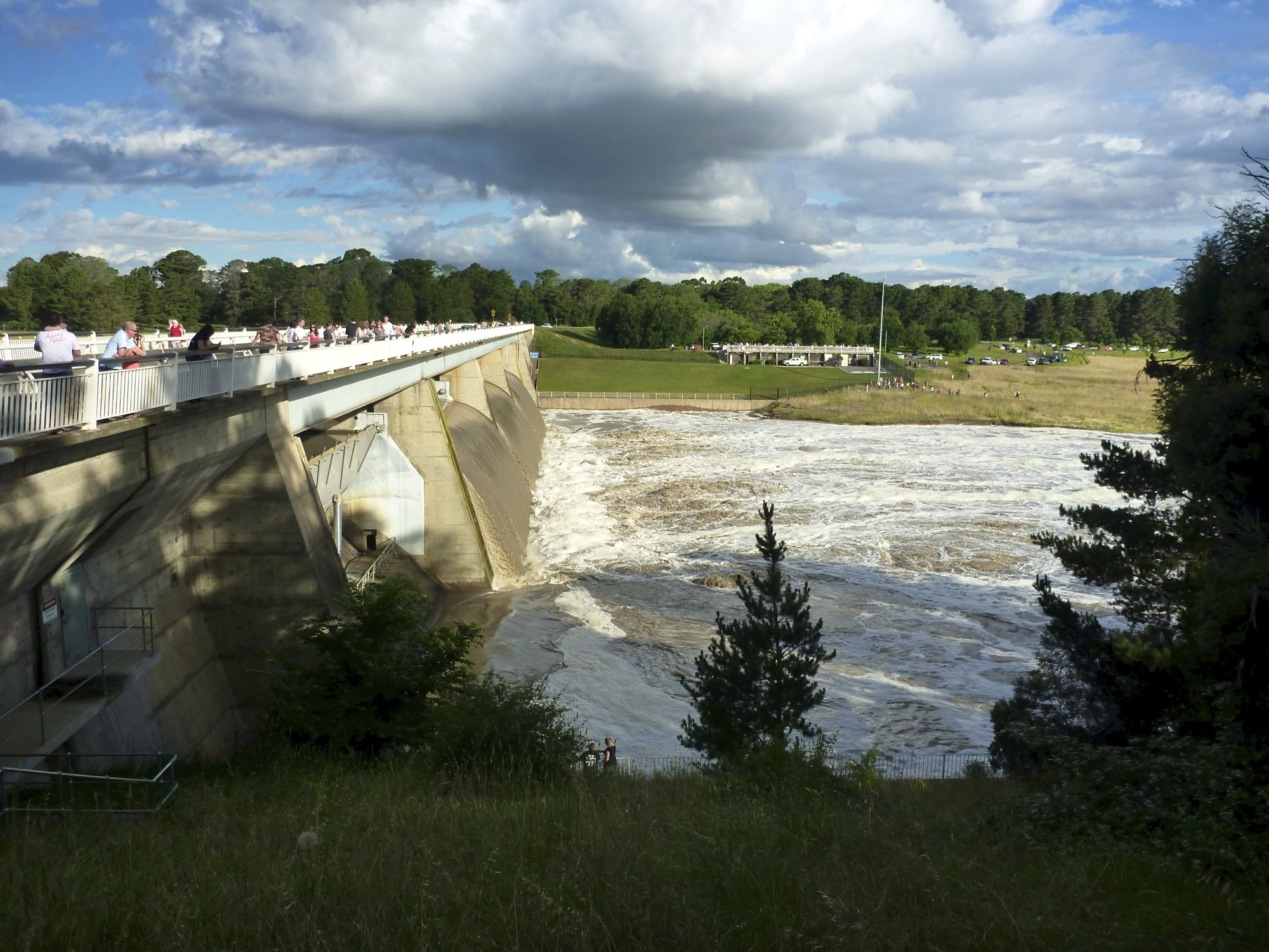 Three of five fish belly flood gates open on Scrivener dam following extended period of heavy rainfall.